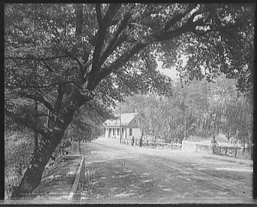 Historic view of Burnet Woods in Cincinnati, OH published in 1906. Exact location within the park is unknown since the subject building no longer exists.